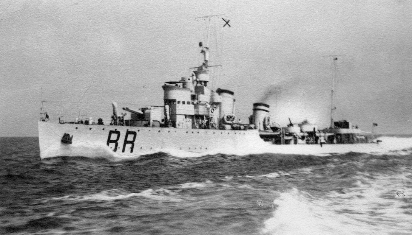 HM Ship Borea. The original picture, scanned by Emiliano Burzagli, belongs to the Private archive of Burzaghi family, Italy. *